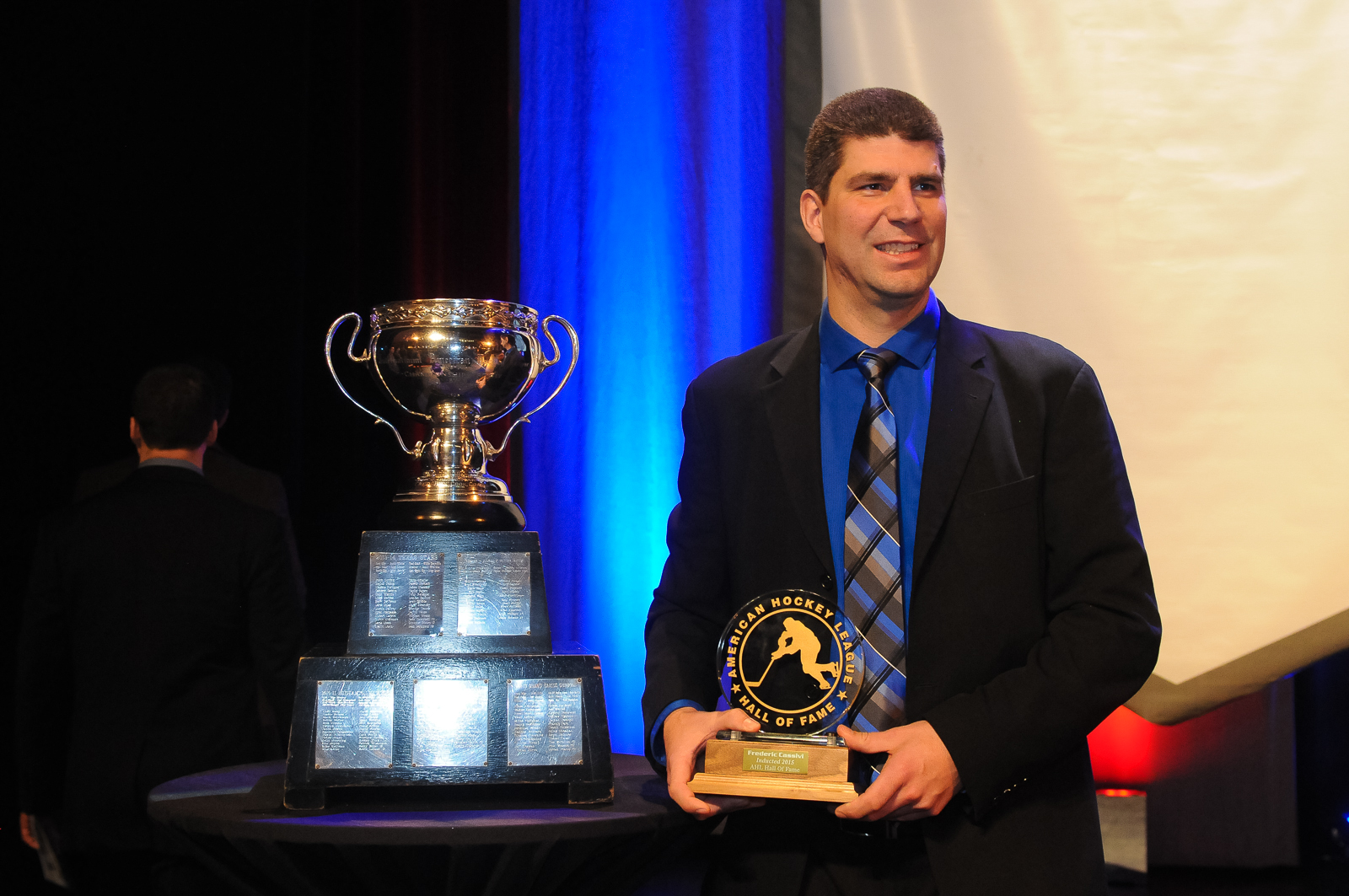 Lindsay A. Mogle/AHL